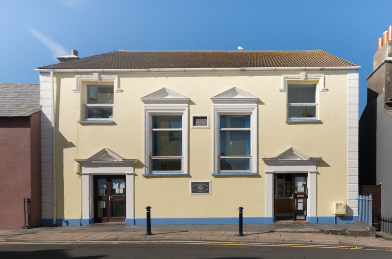 Canolfan Merched y Wawr